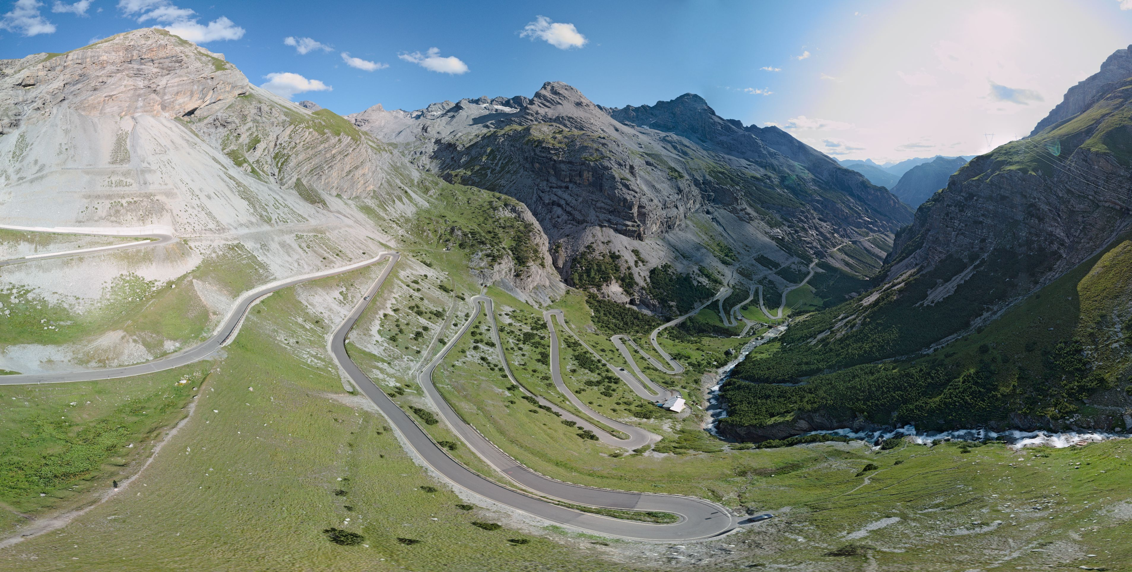 The Stelvio Pass in the direction to Bormio. The picture was assembled from 25 single images using the Hugin panorama software